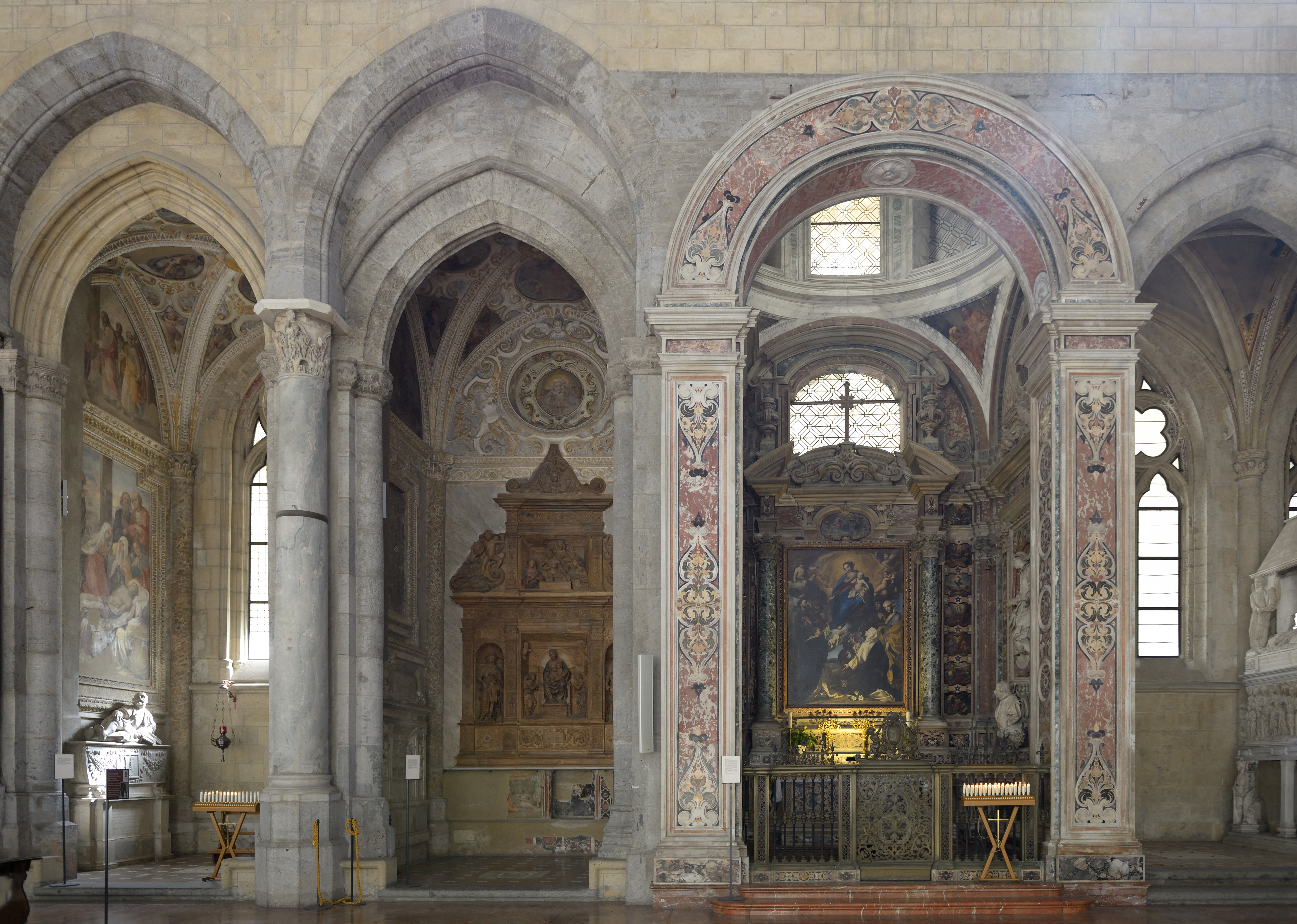 The Saint Roch and the Cacace chapels in the San Lorenzo Maggiore church in Naples. The frescos of both chapels are by Niccolò de Simone